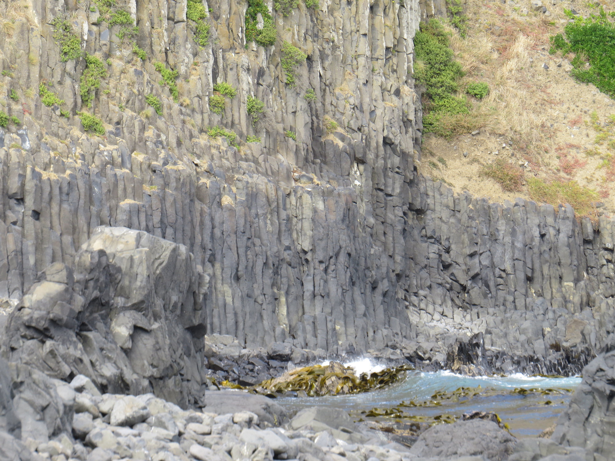 Columnar basalt reaches the coast at Blackhead, near Dunedin, New Zealand.